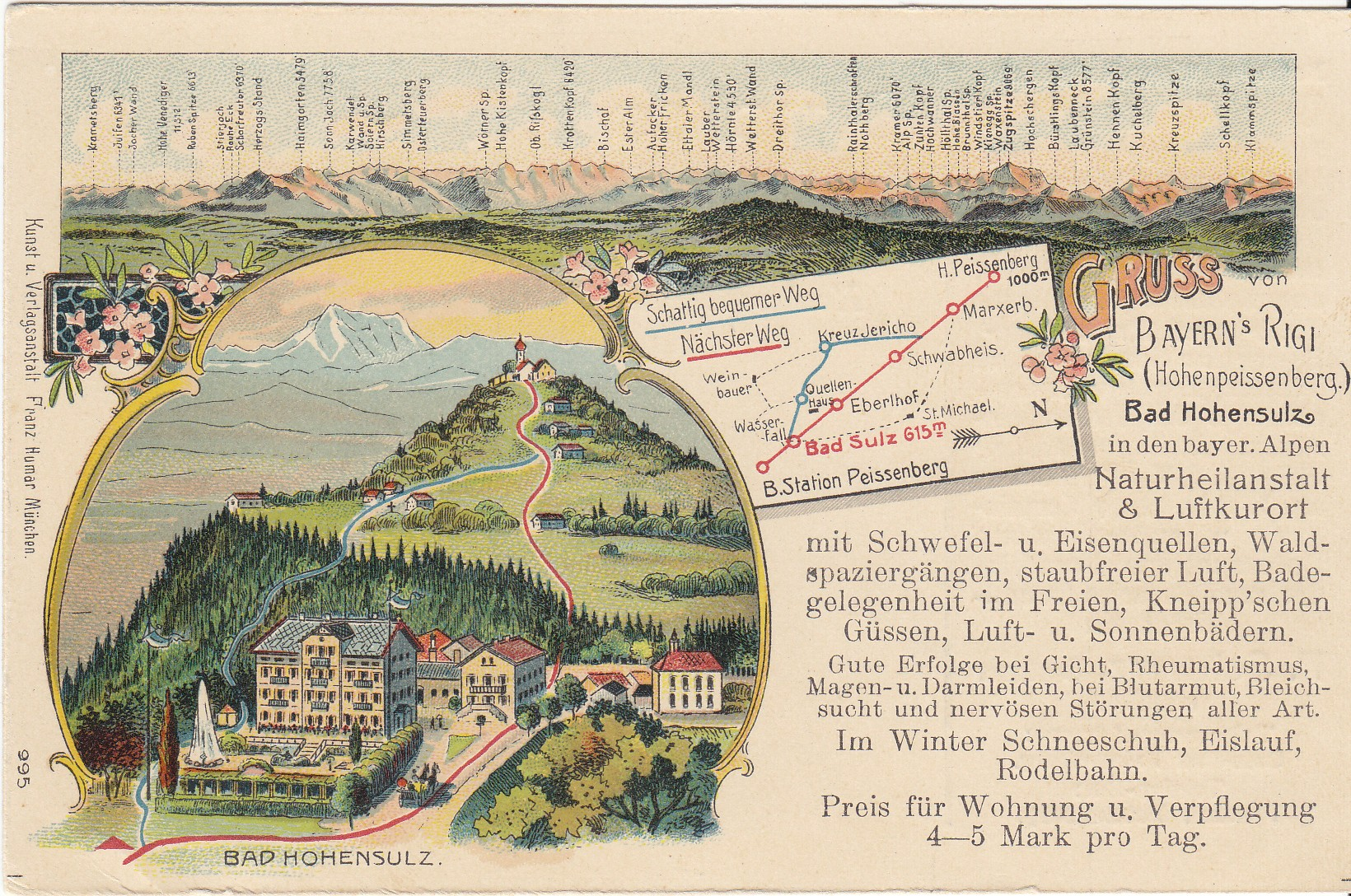 spa resort: "Bad Sulz"; Sulz is today a district of Peissenberg